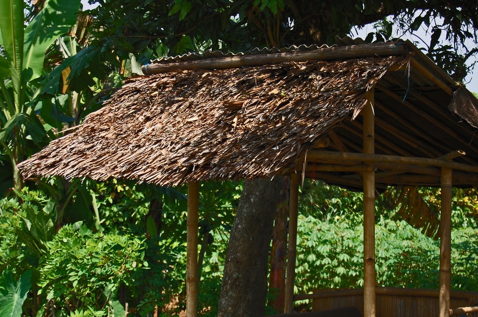 Thatch from Metroxylon sagu leaflets. Bogor, West Java, Indonesia